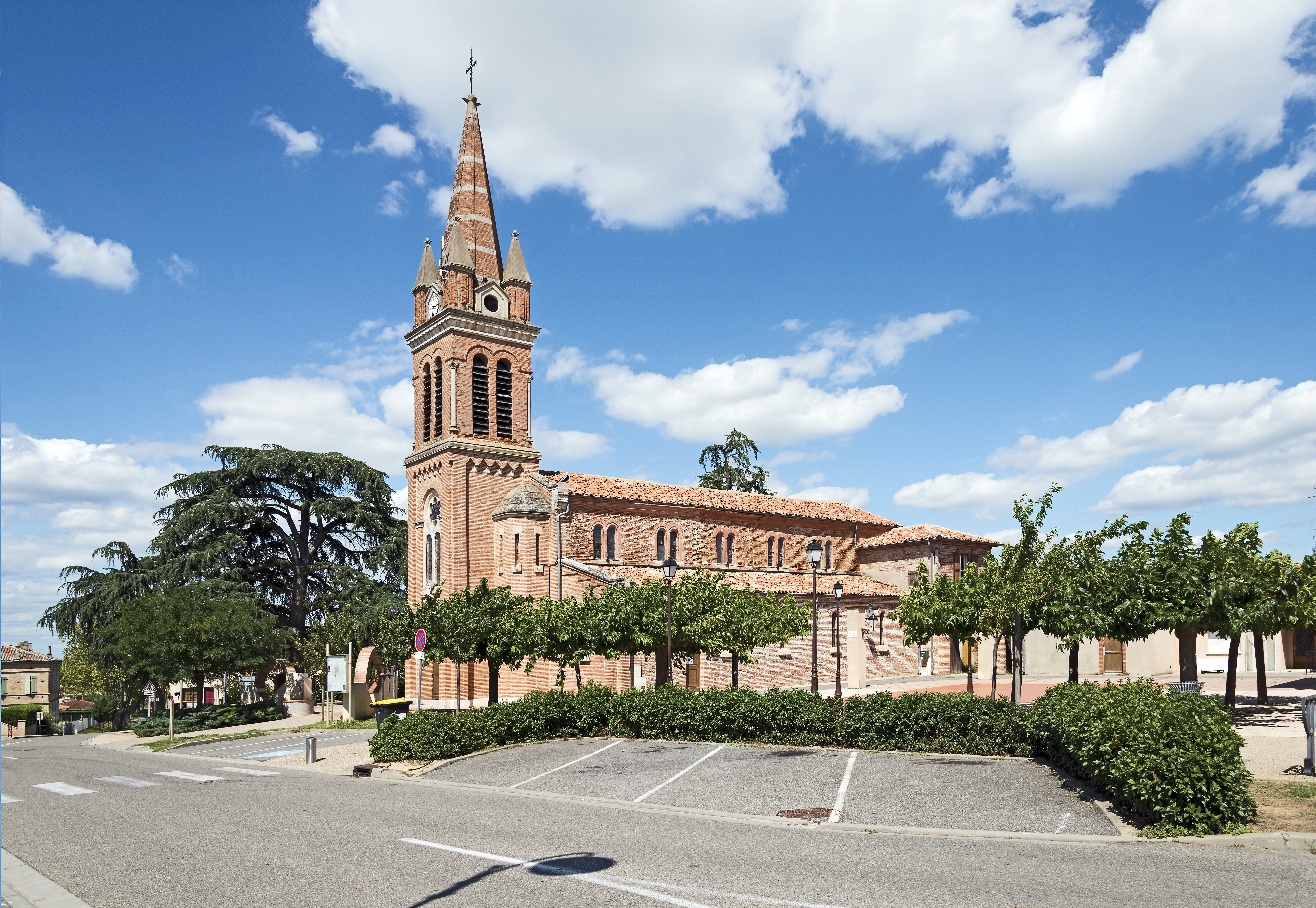 Campsas, St. Blaise church, village square.